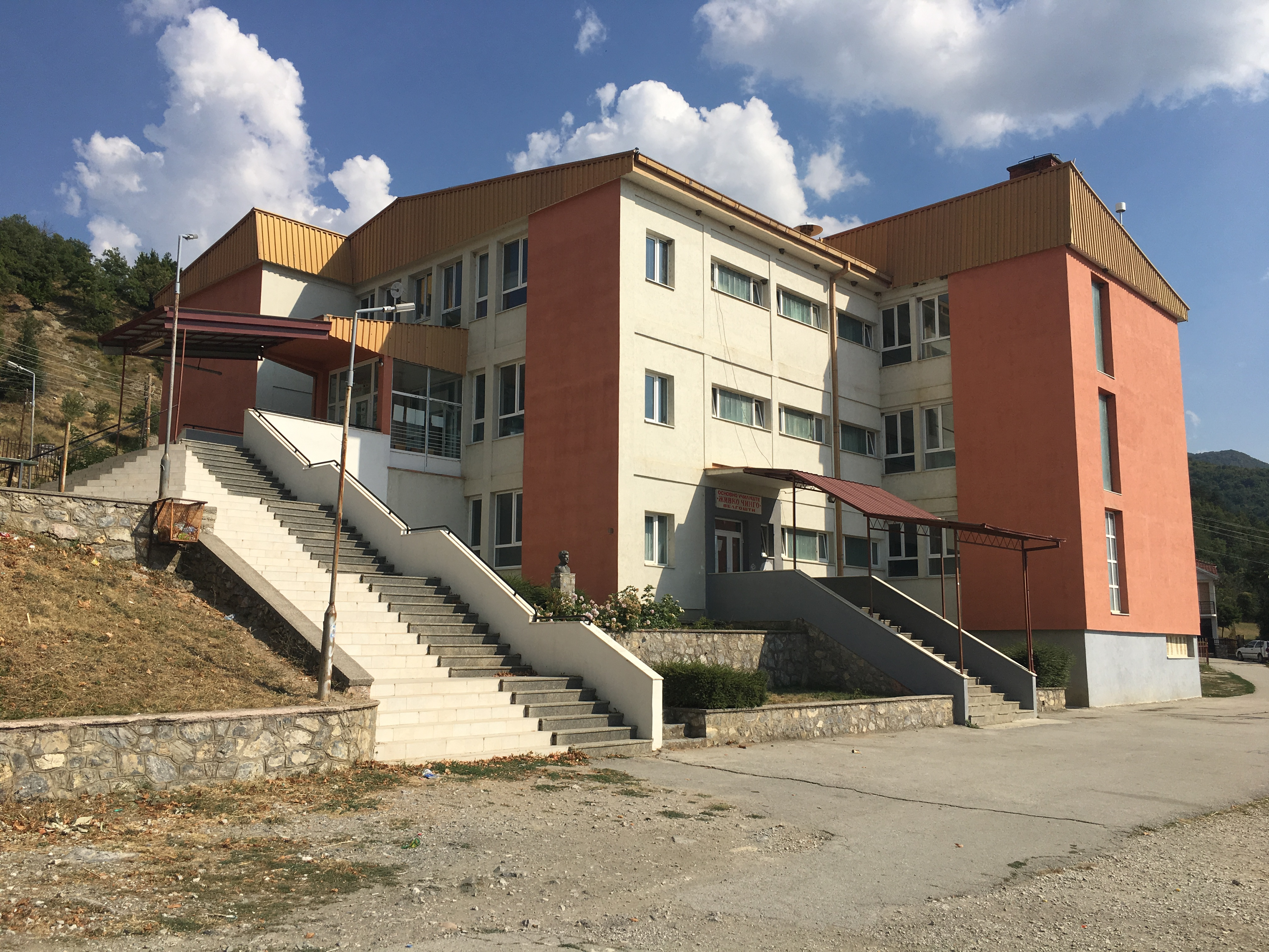 Živko Čingo Primary School in the village of Velgošti